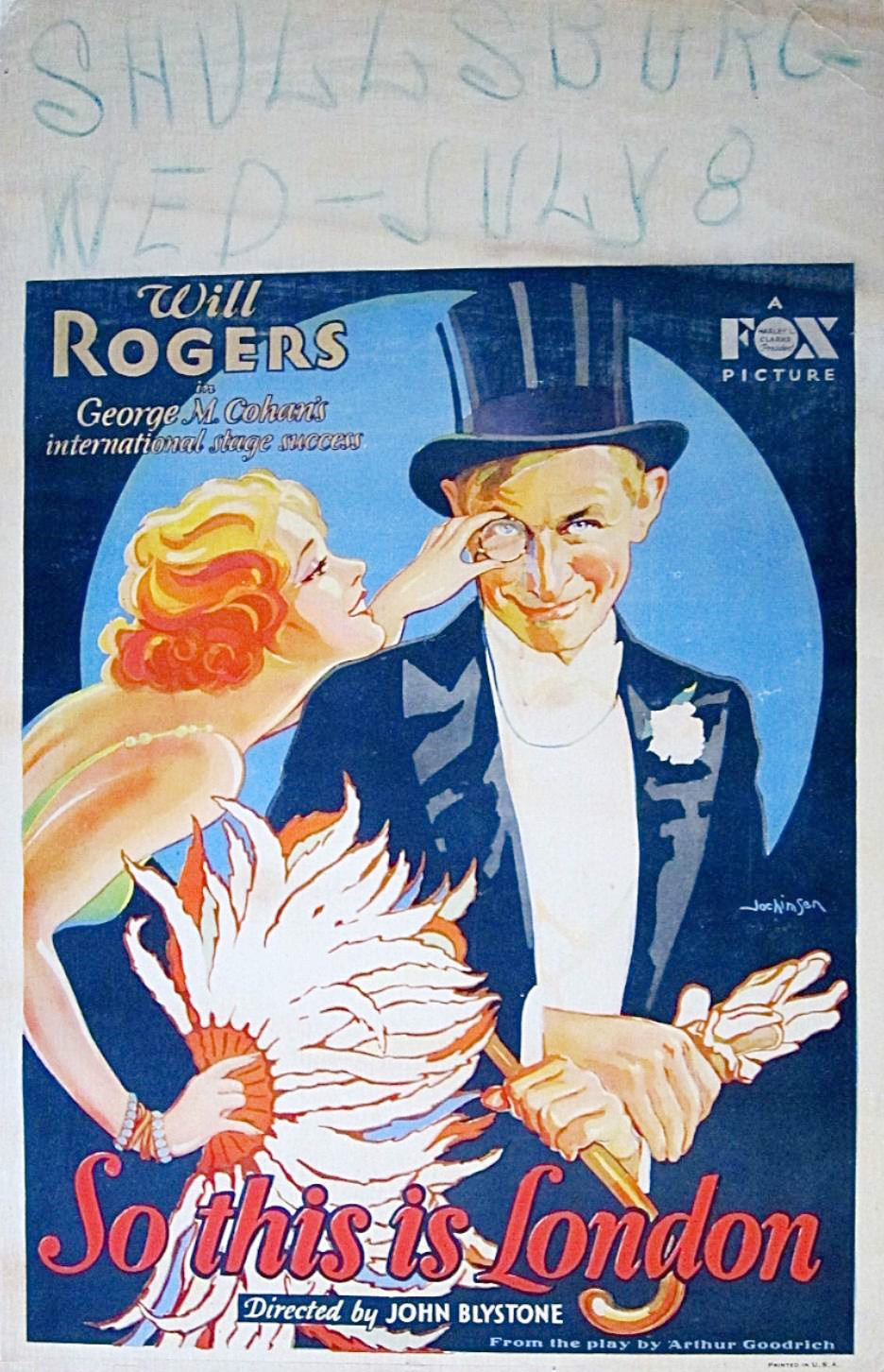 Window poster for the 1930 film So This Is London.